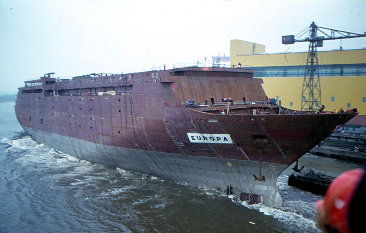 The launching of the cruise ship Europa at Bremen on December 22, 1980.